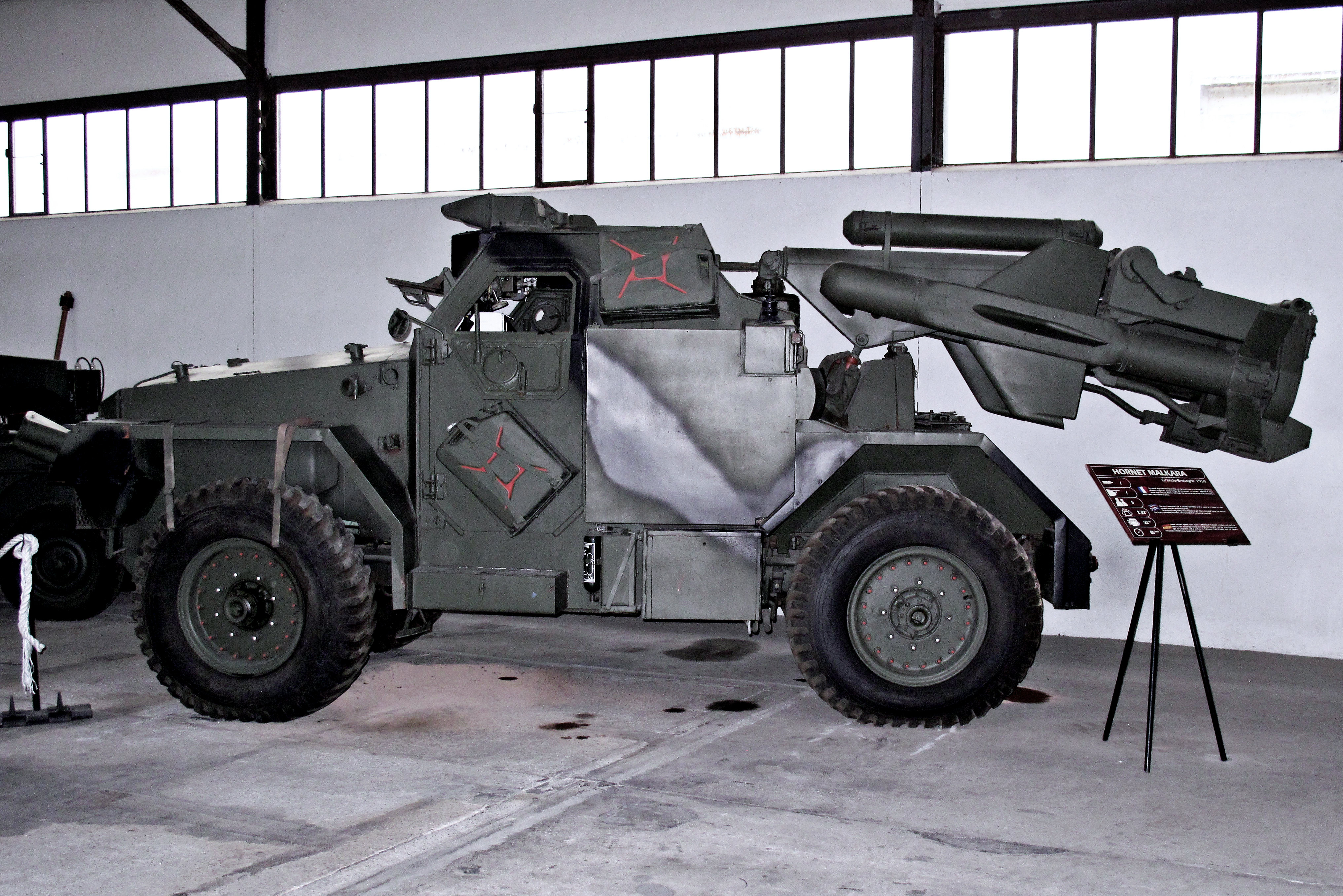 Malkara missile. On display at Saumur Général Estienne museum.